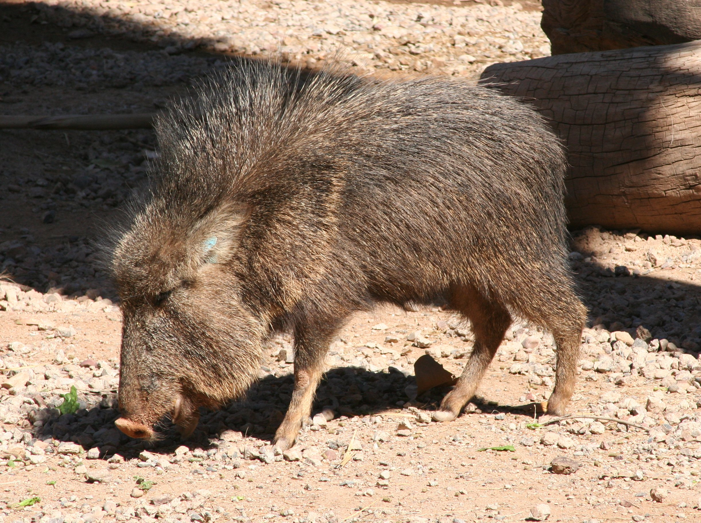 Chacoan peccary (Catagonus wagneri). Photographed at the Phoenix Zoo, Phoenix, AZ.